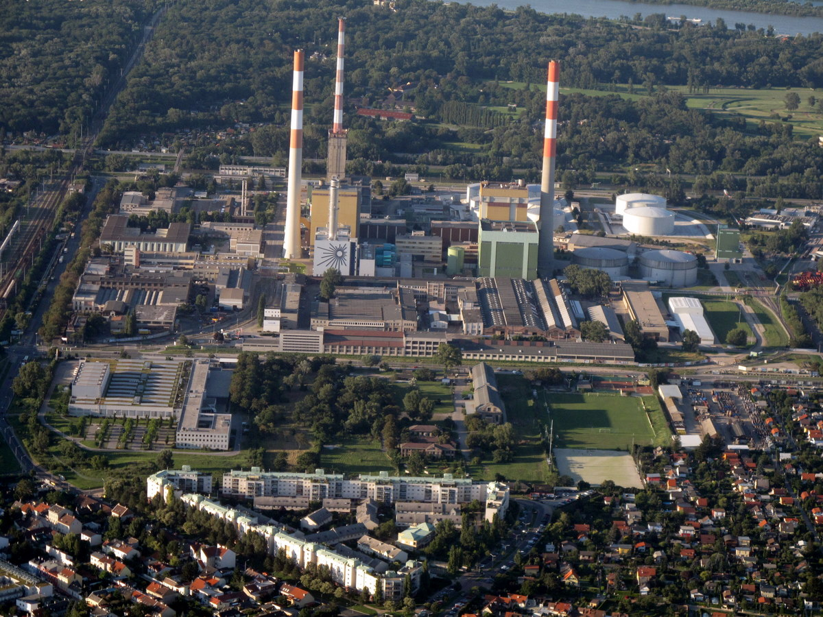 from a trip documented on Vienna, Austria